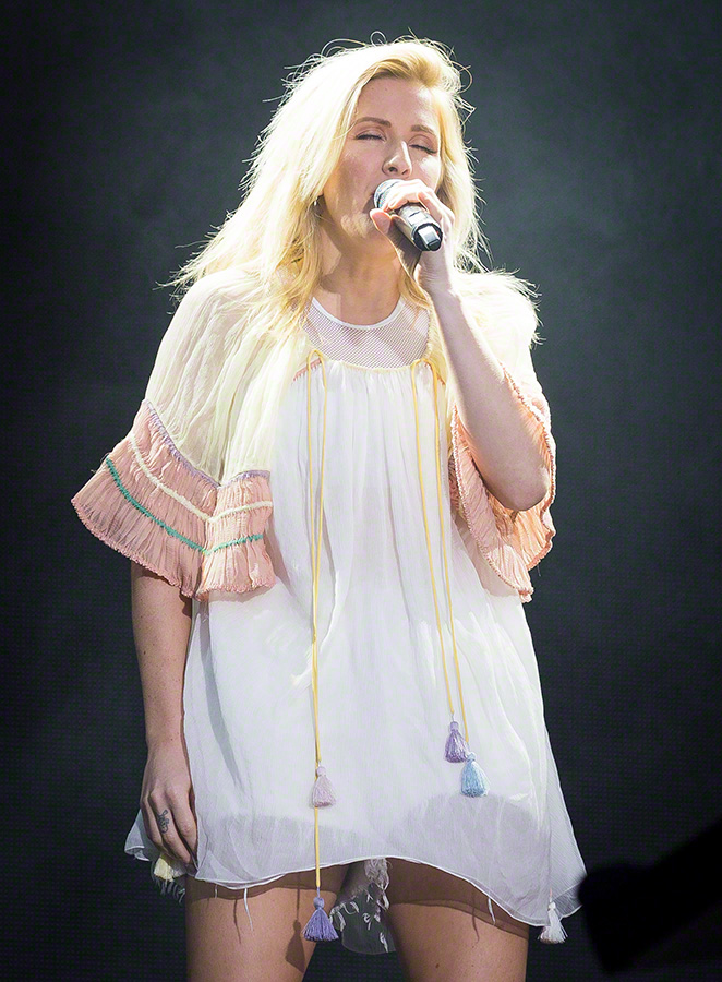 Ellie Goulding at the main stage during Stavernfestivalen in Stavern on 09. July 2016. Lineup:Ellie Goulding (vocal)